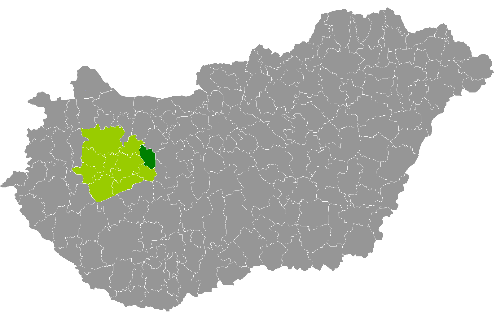 Location of Várpalota District, Veszprém, Hungary